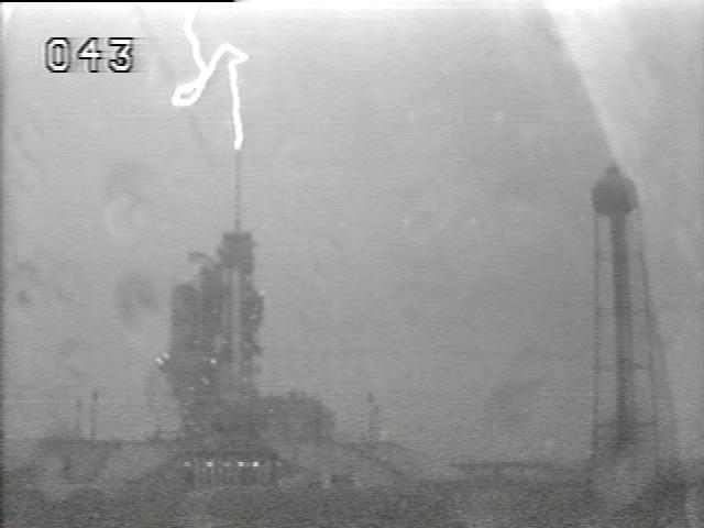 Lightning strikes Space Shuttle Endeavour's Launch Complex 39A on July 11, 2009 during a thunderstorm event. The complex was struck at least 11 times, delaying the launch for at least 24 hours.